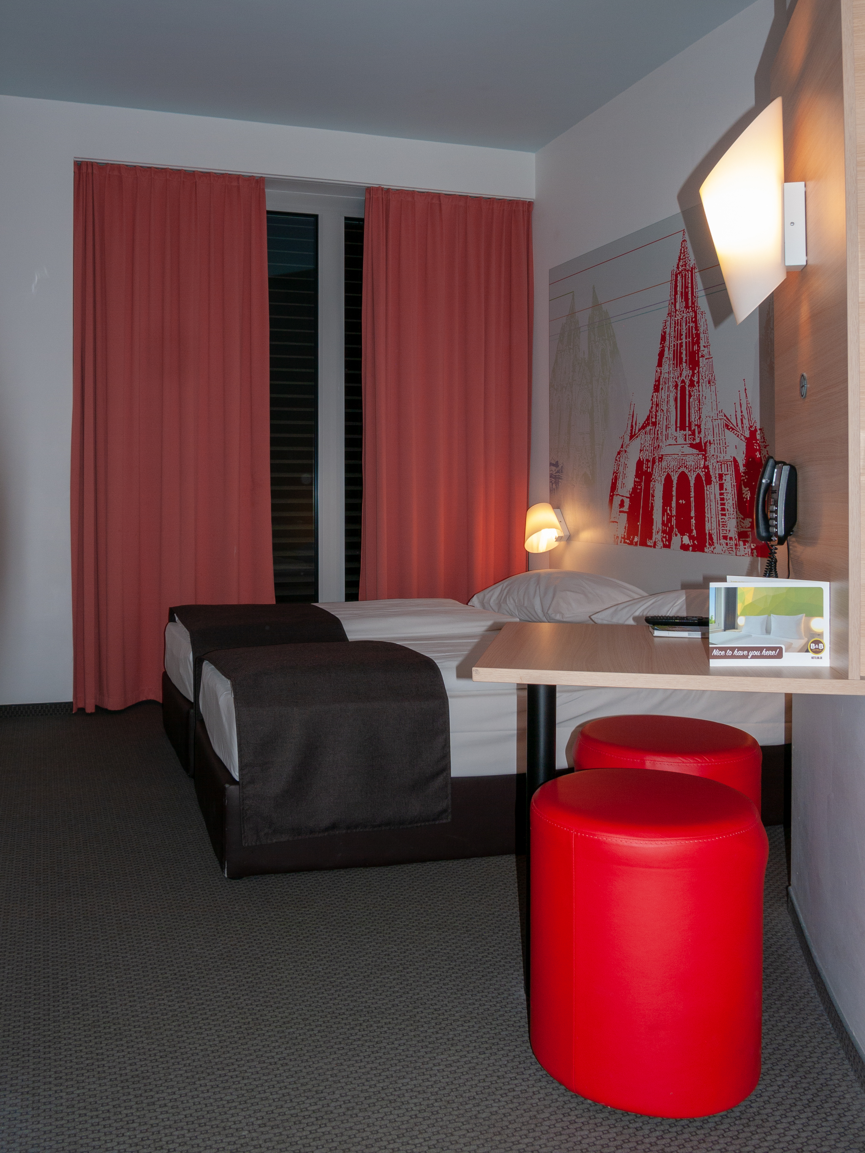 Hotel B&B